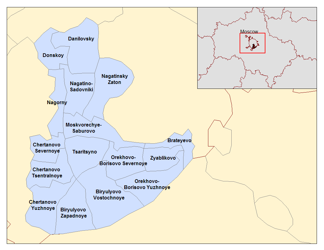 Map of the districts of the Southern Administrative Okrug of the Federal City of Moscow. Created by Rarelibra 20:51, 3 April 2007 (UTC) for public domain use, using MapInfo Professional v8.5 and various mapping resources.